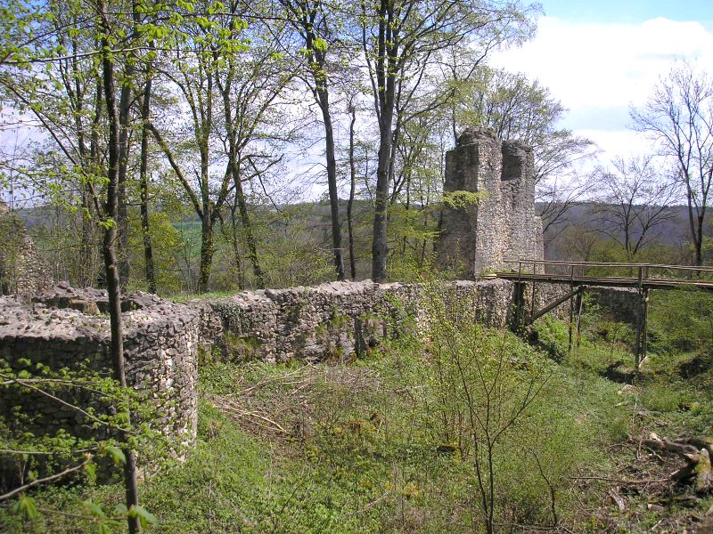 Burg Kaltenburg, southwest curtain wall and tower